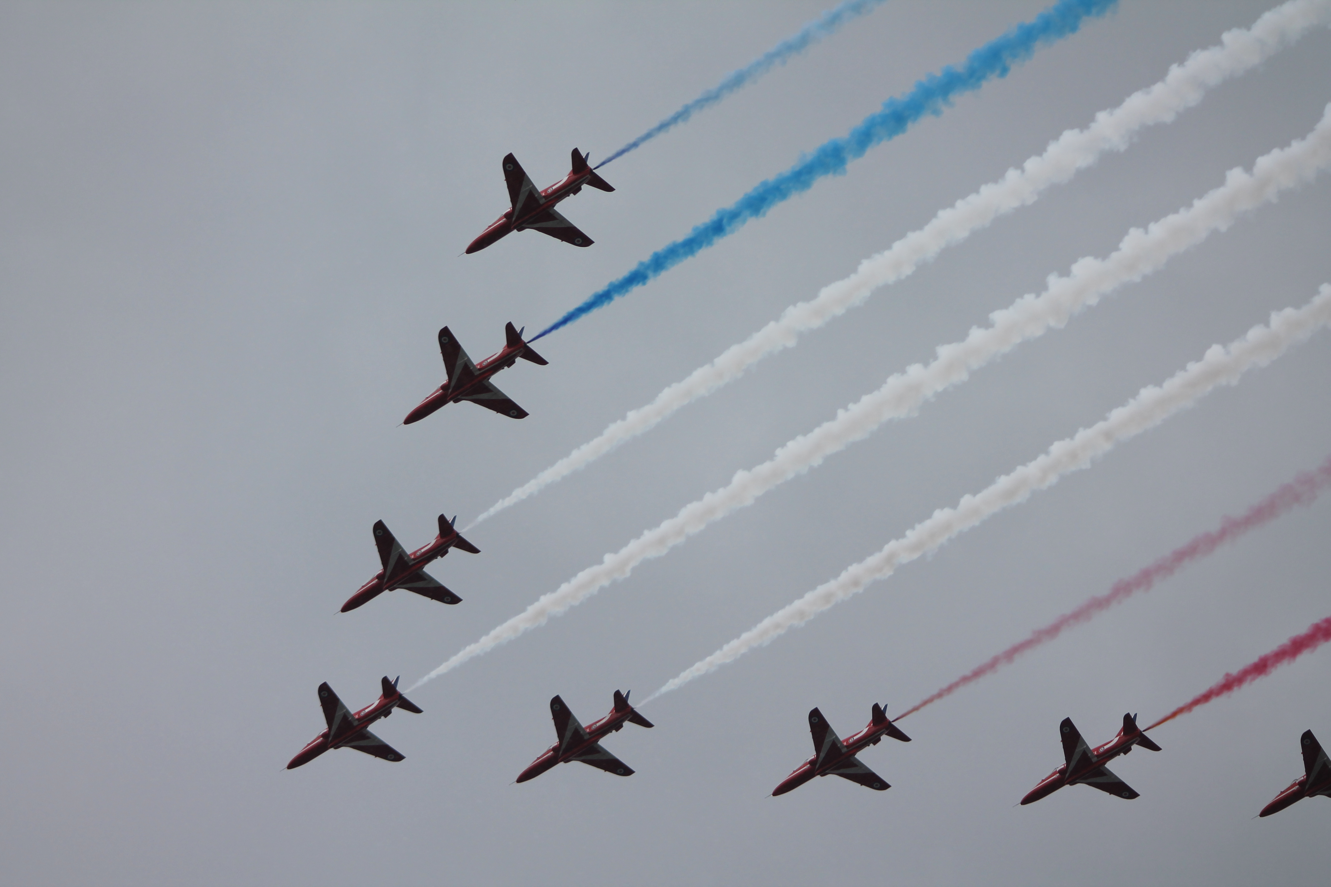 Diamond Jubilee flypast